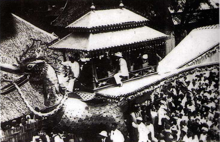 Burung Petala Indera of 1933